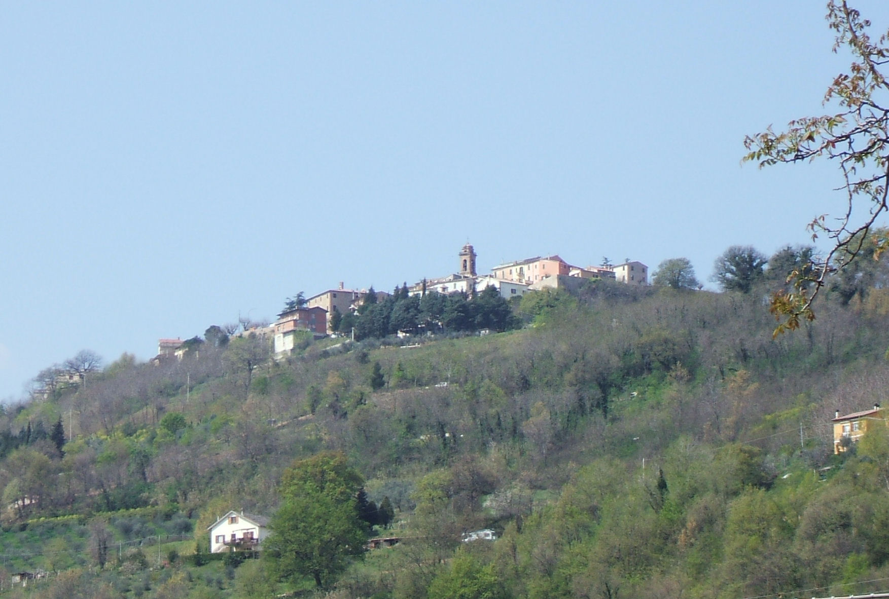 Vista of Rosora